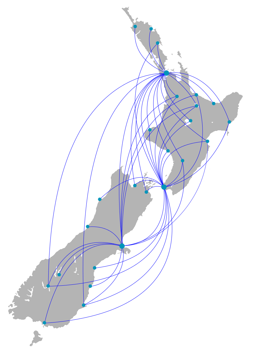 Map of domestic routes flown by Air New Zealand